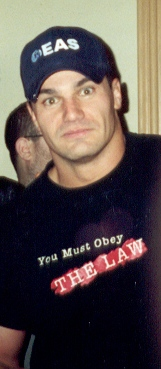 Lance Storm on June 6, 2001 in Windsor, Ontario.